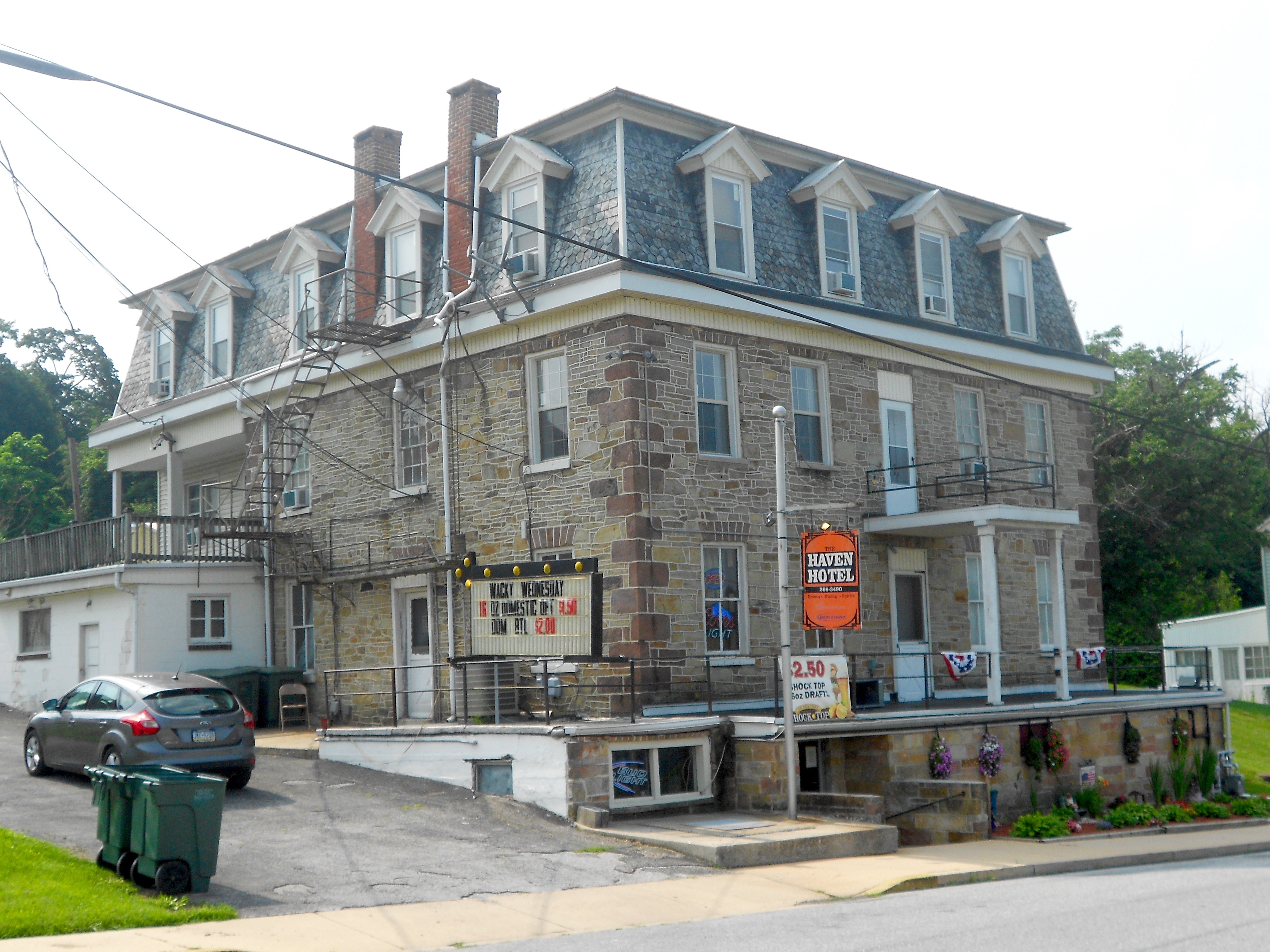 Haven Hotel in York Haven, York County, Pennsylvania. Interesting old building, probably a heck of a good bar for fishermen and sailors on the nearby Susquehanna River